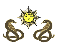 Coat of Arms of Gwalior State This work is in the public domain in India because its term of copyright has expired. The Indian Copyright Act applies in India, to works first published in India. According to The Indian Copyright Act, 1957 (Chapter V Section 25), Anonymous works, photographs, cinematographic works, sound recordings, government works, and works of corporate authorship or of international organizations enter the public domain 60 years after the date on which they were first published, counted from the beginning of the following calendar year (ie. as of 2016, works published prior to 1 January 1956 are considered public domain). Posthumous works (other than those above) enter the public domain after 60 years from publication date. Any other kind of work enters the public domain 60 years after the author's death. Text of laws, judicial opinions, and other government reports are free from copyright. Photographs created before 1958 are in the public domain 50 years after creation, as per the Copyright Act 1911. This file may not be in the public domain outside India. The creator and year of publication are essential information and must be provided. See Wikipedia:Public domain and Wikipedia:Copyrights for more details. This image shows a flag, a coat of arms, a seal or some other official insignia. The use of such symbols is restricted in many countries. These restrictions are independent of the copyright status.